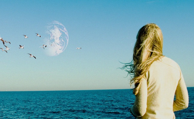 Still image from ANOTHER EARTH